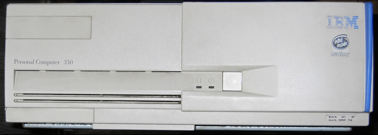 IBM Personal Computer 330 (6577-9BT) with its front hood covering the CD-ROM and floppy compartment. The machine's location in the photo was not good, so I used the GIMP to edit it out of the main image.